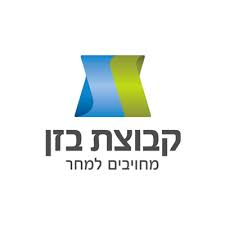 company logo